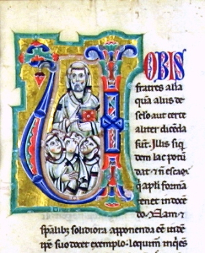 3 S. Bernardo, Sermones in Cantica canticorum. Ms. 687 (sec. XIII, prima metà) - Biblioteca Universitaria Padova